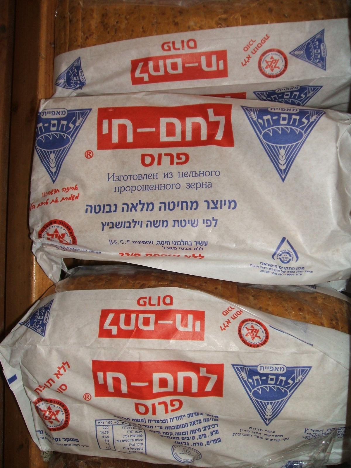 Israeli "live bread" ("Lehem Hai")